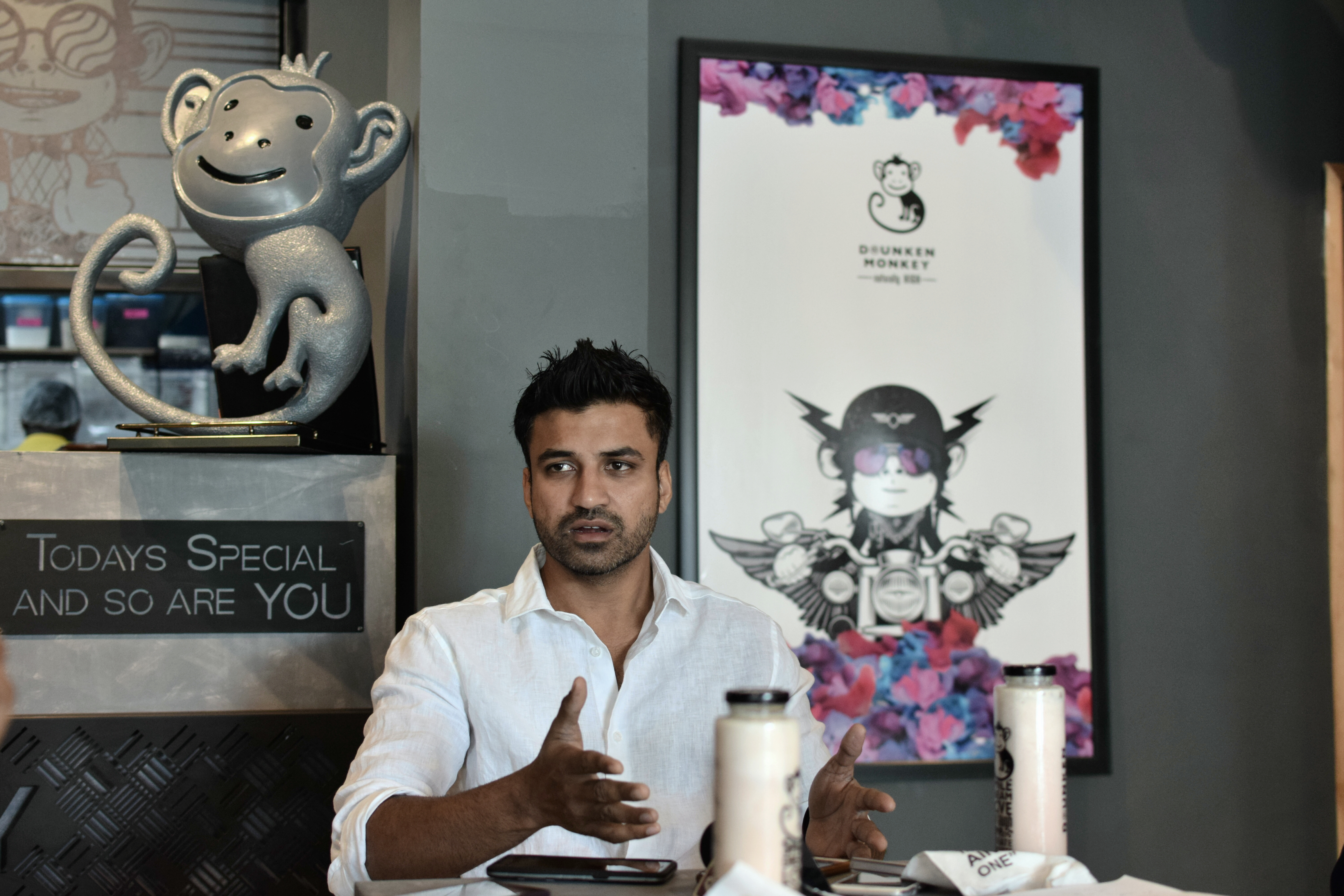 Samrat Reddy, Founder, Managing Director, Drunken Monkey Smoothies Cafe